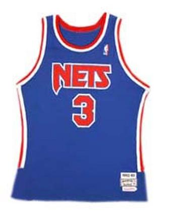 Nets jersey of Dražen Petrović.